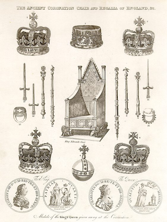 The Ancient Coronation Chair and Regalia of England &c.. Copper engraving. Steel engraving. Size 18 x 24 cm. Another source states that this is Plate IV of A Faithful Account of the Processions and Ceremonies of the Kings and Queens of England; exemplified by that of their most Sacred Majesties King George the Third and Queen Charlotte: with all the other interesting proceedings connected with that magnificent festival. Edited by Richard Thomson. London, 1820. Index of the coronation items 1: Imperial State Crown 2: Mary of Modena's Diadem 3: 4: One of the four Swords borne before the monarch. 5: Sword of Mercy 6: 7: The Sovereign's Staff (St. Edward's Staff) 8: Sovereign's Ring 9: King Edward's Chair (the Coronation chair) 10: 11: Sceptre with the Dove 12: 13: One of the four Swords borne before the monarch. 14: Queen-Consort's Ring 15: St Edward's Crown 16: Sovereign's Orb 17